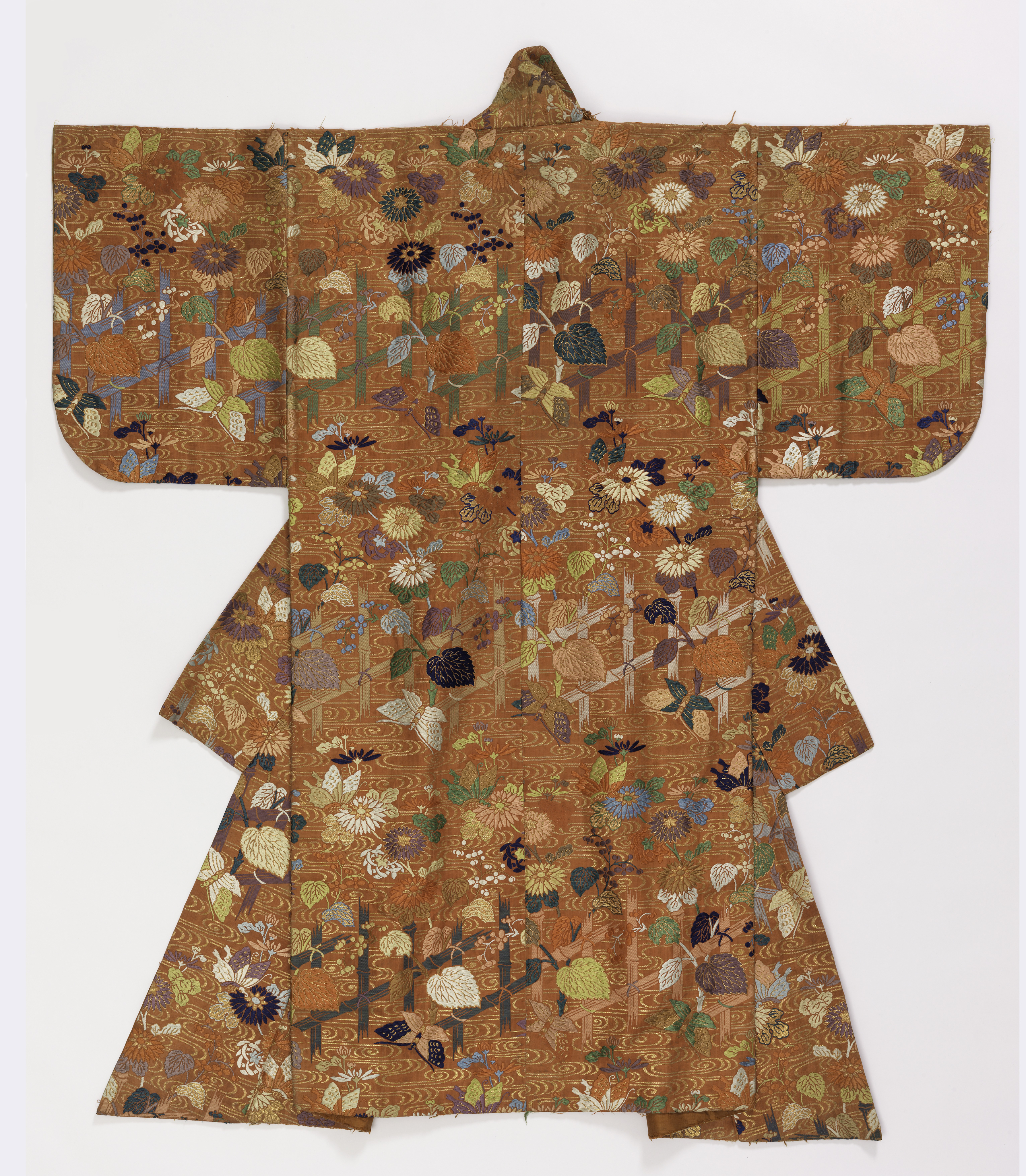 Theatrical robe of terra-cotta silk twill brocaded heavily in polychrome silks and gilded paper-wrapped silk-core yarns. The design is of bamboo lattice-work and vines, chrysanthemums, berries and butterflies. Lined with solid color terracotta silk.